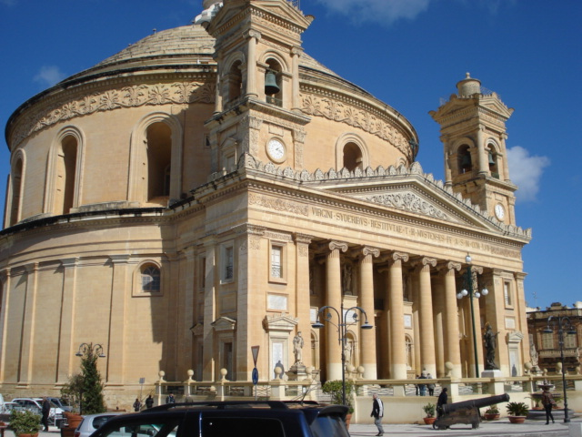 Rotunda of St Marija Assunta, Mosta, Malta